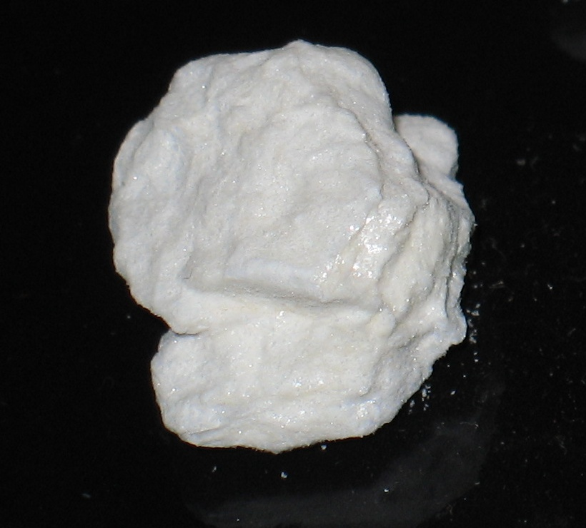 Close up shot of a broken piece of compressed cocaine powder